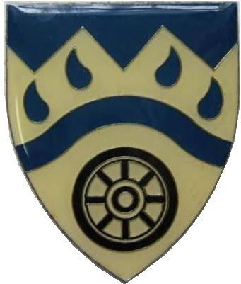 SADF era Weenen Kliprivier emblem